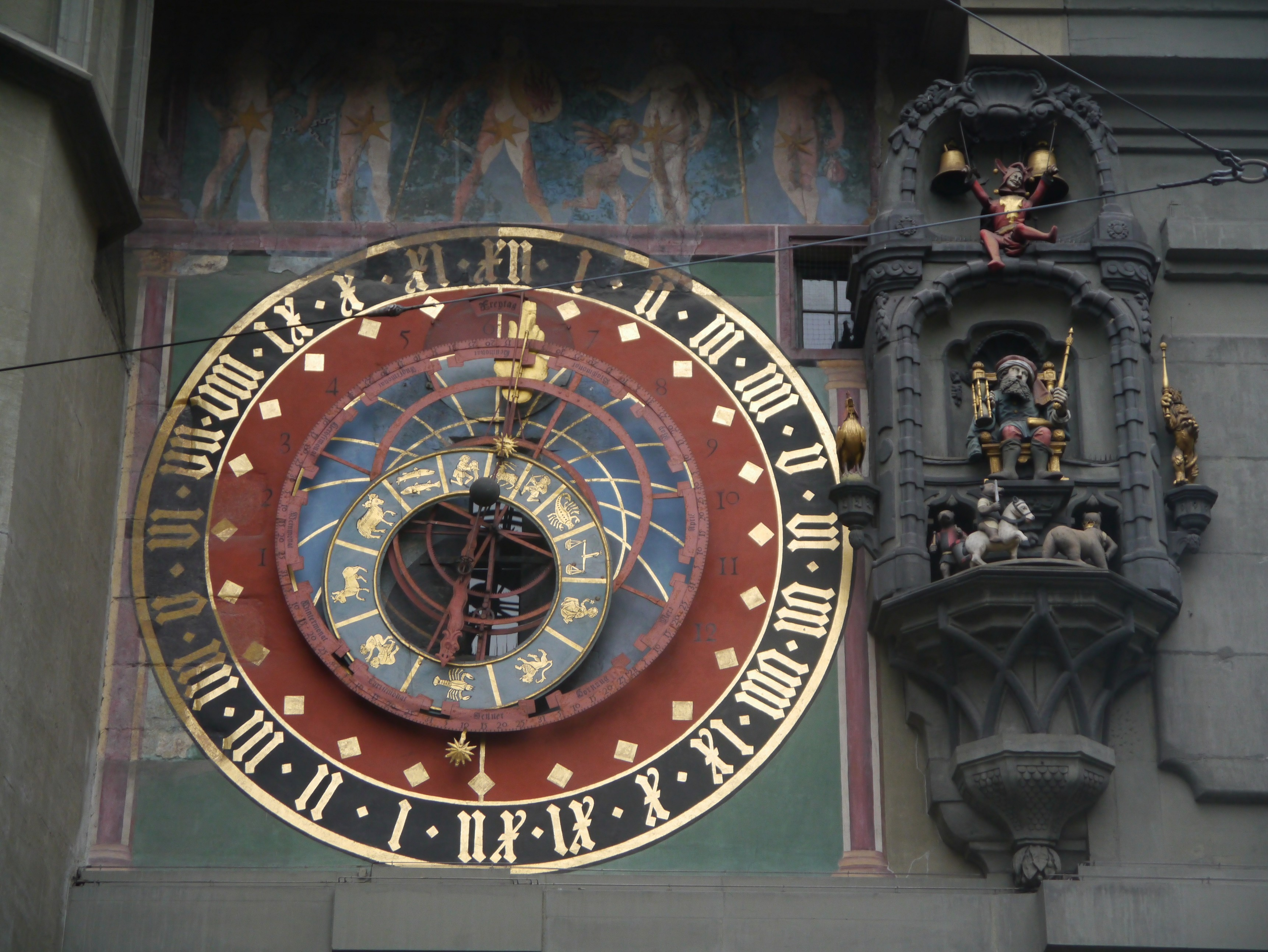 Clock tower, Bern, Canton of Bern, Western Switzerland